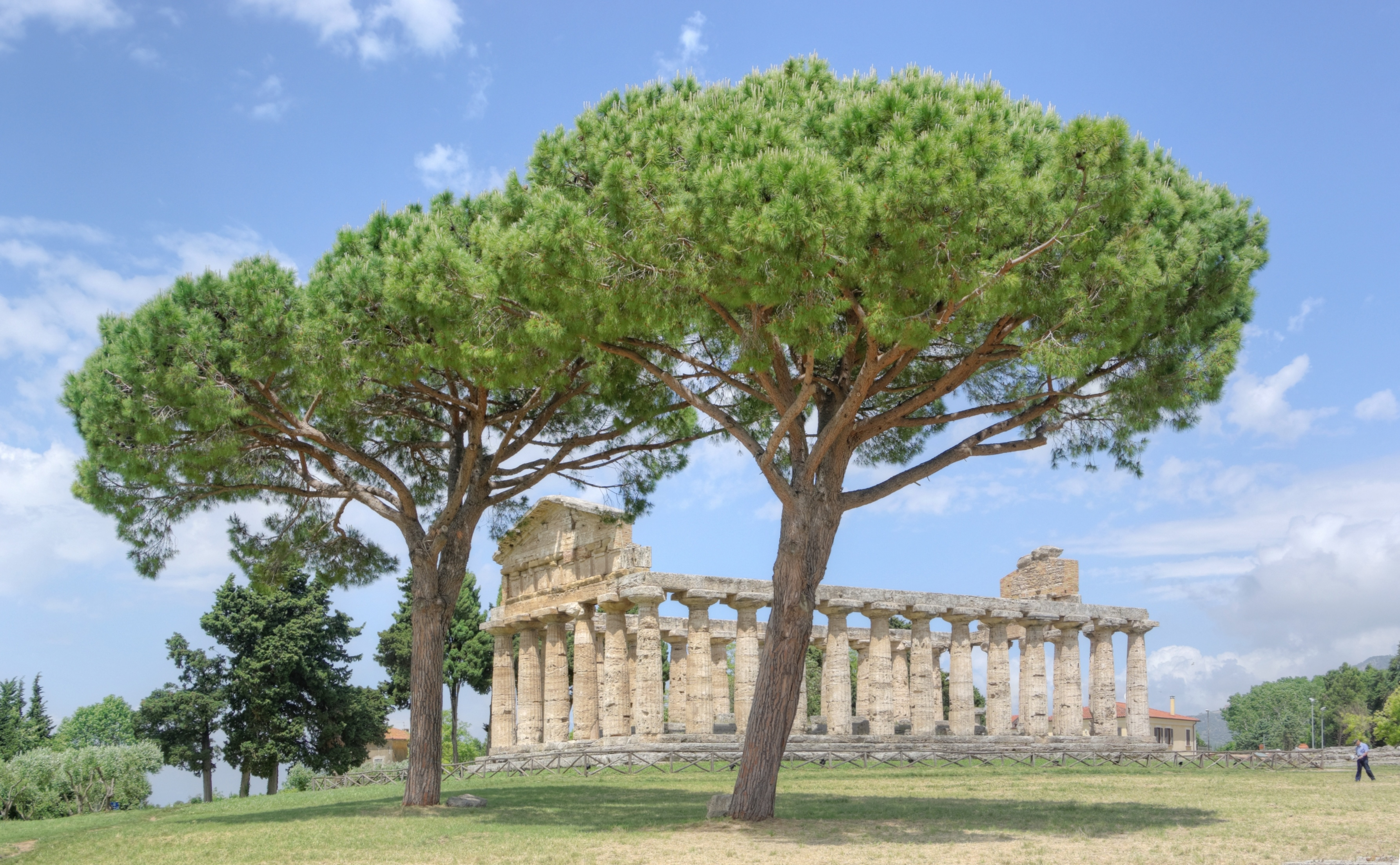 Italy, Paestum, Temple of Athena